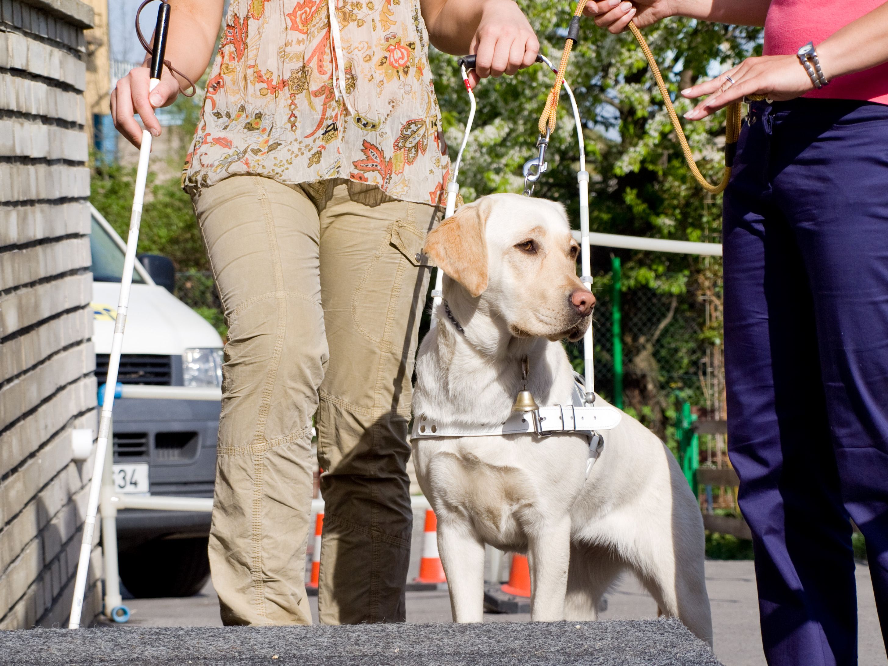 Dog guiding blind woman, Czech guide dog school Klikatá, Prague 5